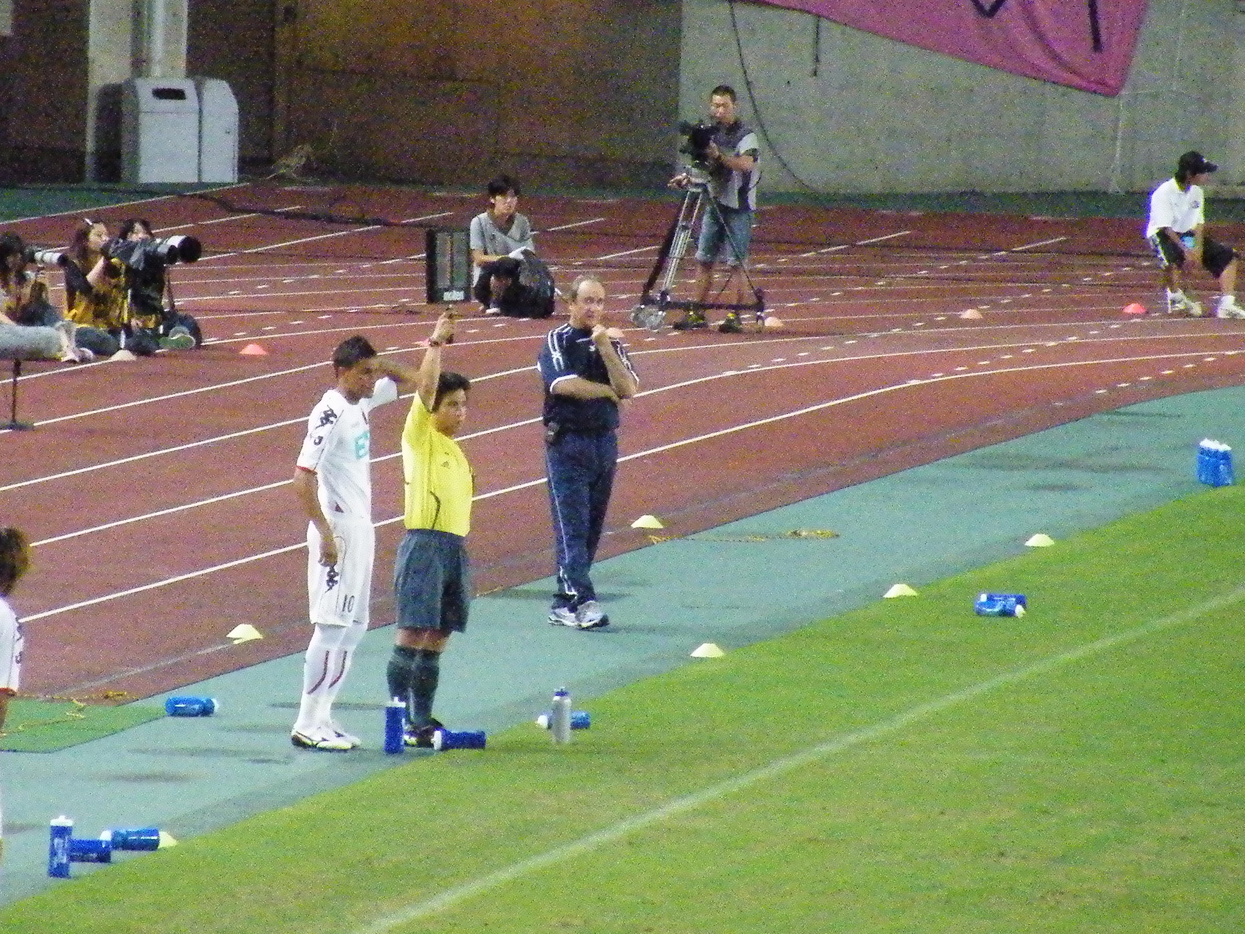 Rafael Bastos, who debuted in J. League match. He came off the bench on 70 minute to replace Hiroki Miyazawa. (2009 J. League Division 2 #31 Cerezo Osaka vs. Consadole Sapporo, at Nagai Stadium)